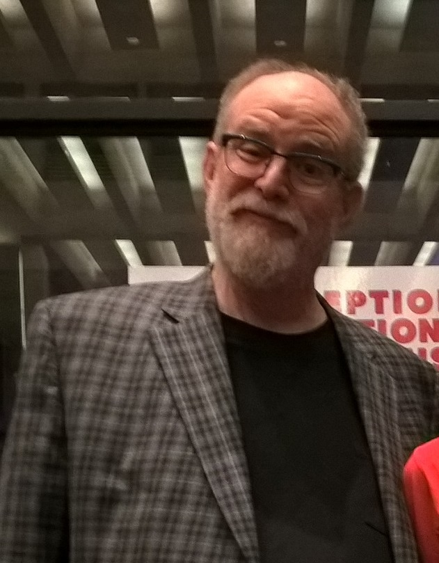 William Finn at a public Platform Talk at Lincoln Center Theater on November 17, 2016